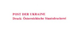 Stamps of Ukraine, 1993